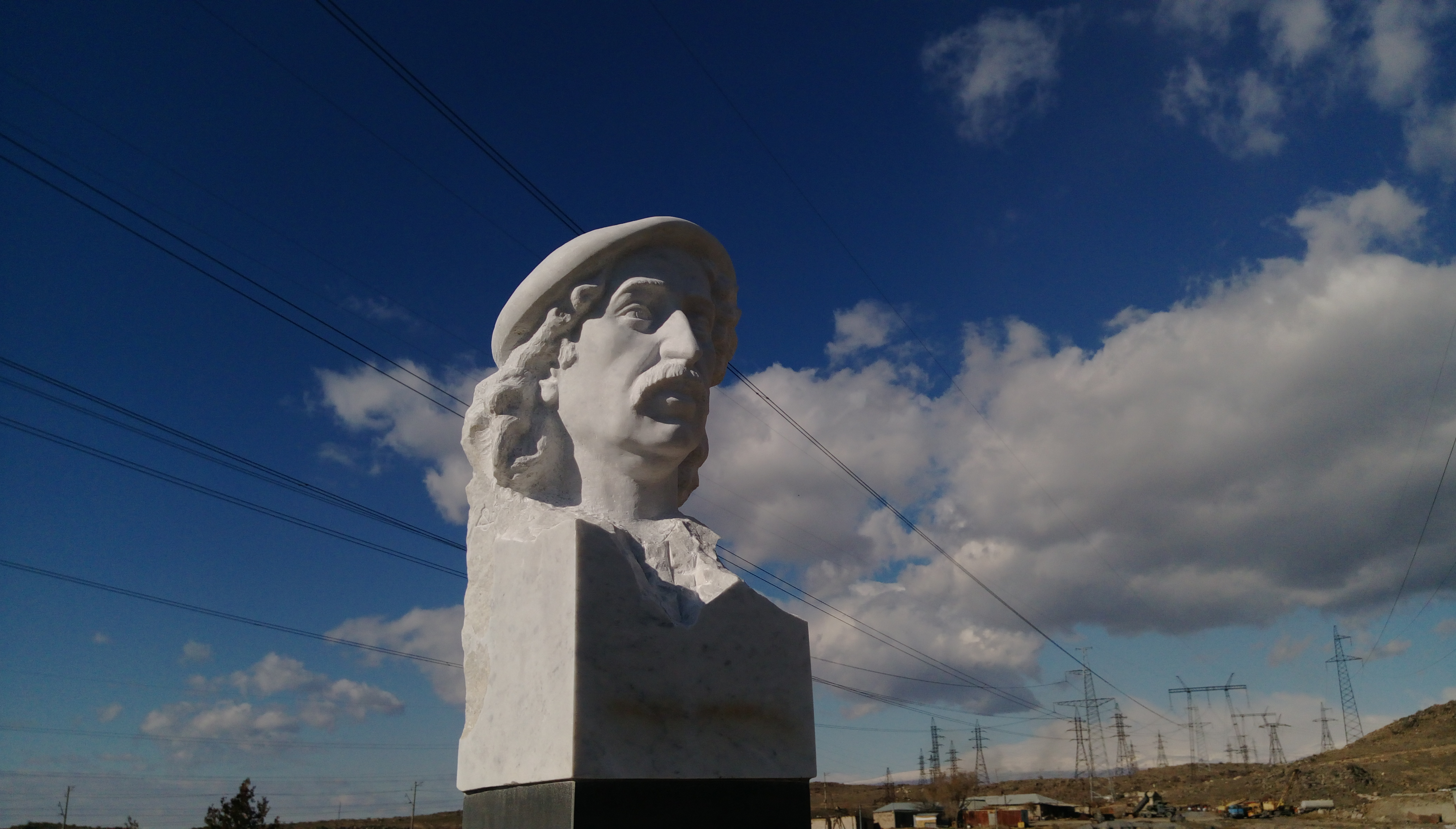 Statue of artist Ara Baghdasaryan tombstone statue